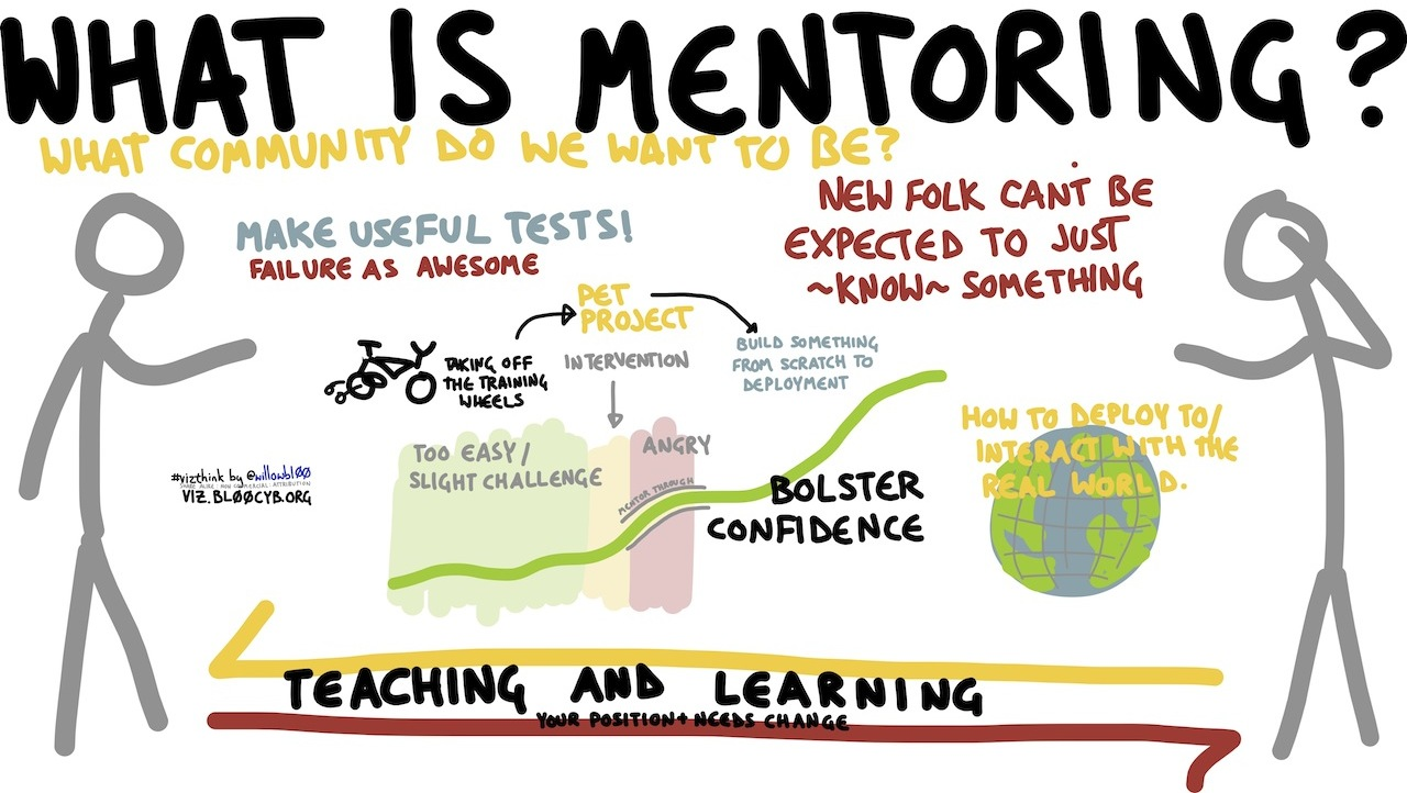 What is mentoring? Ryan Dy and Marlena Compton at Cascadia.JS, as seen here